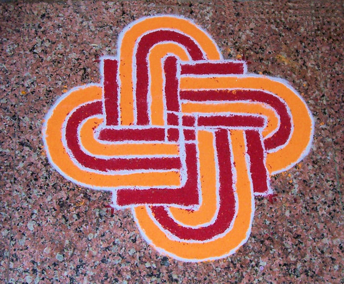 Rangoli - Tradition of India